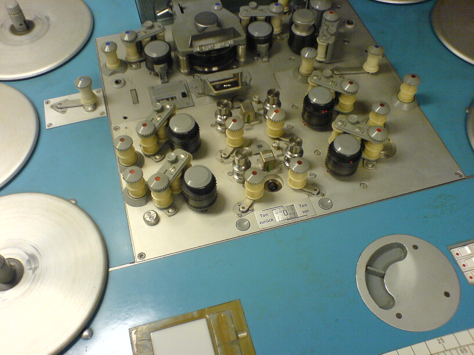 A Steenbeck 6000 flatbed editor